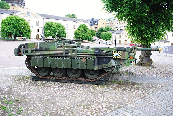 Tank S (also known as Tank 103) with 105 mm gun at the Swedish Armoury Museum Stockholm, 06/10. This tank was unique for its lack of turret, light weight, compact size, small target area and extreme agility.